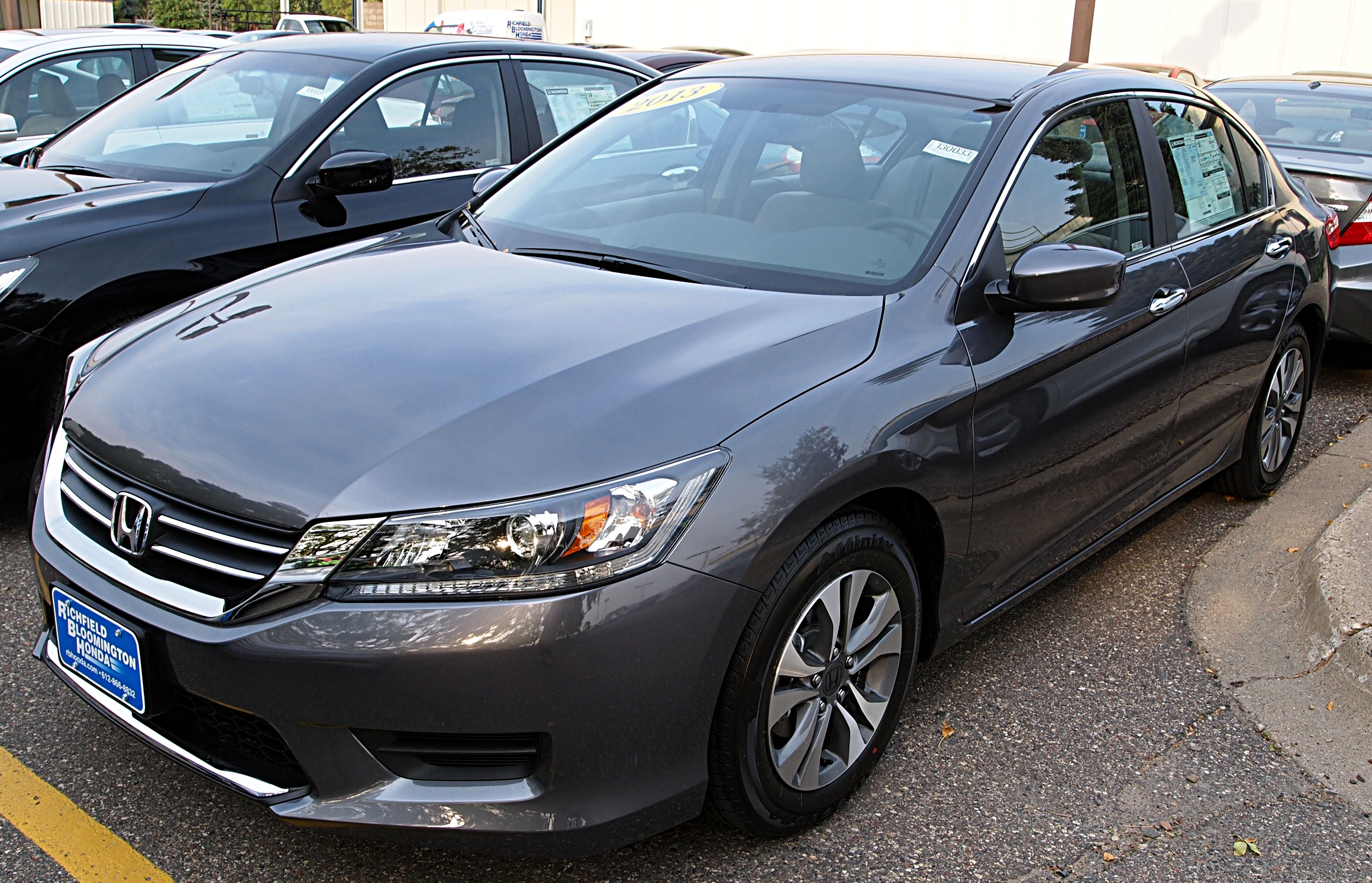 2013 Honda Accord LX Sedan, U.S. model